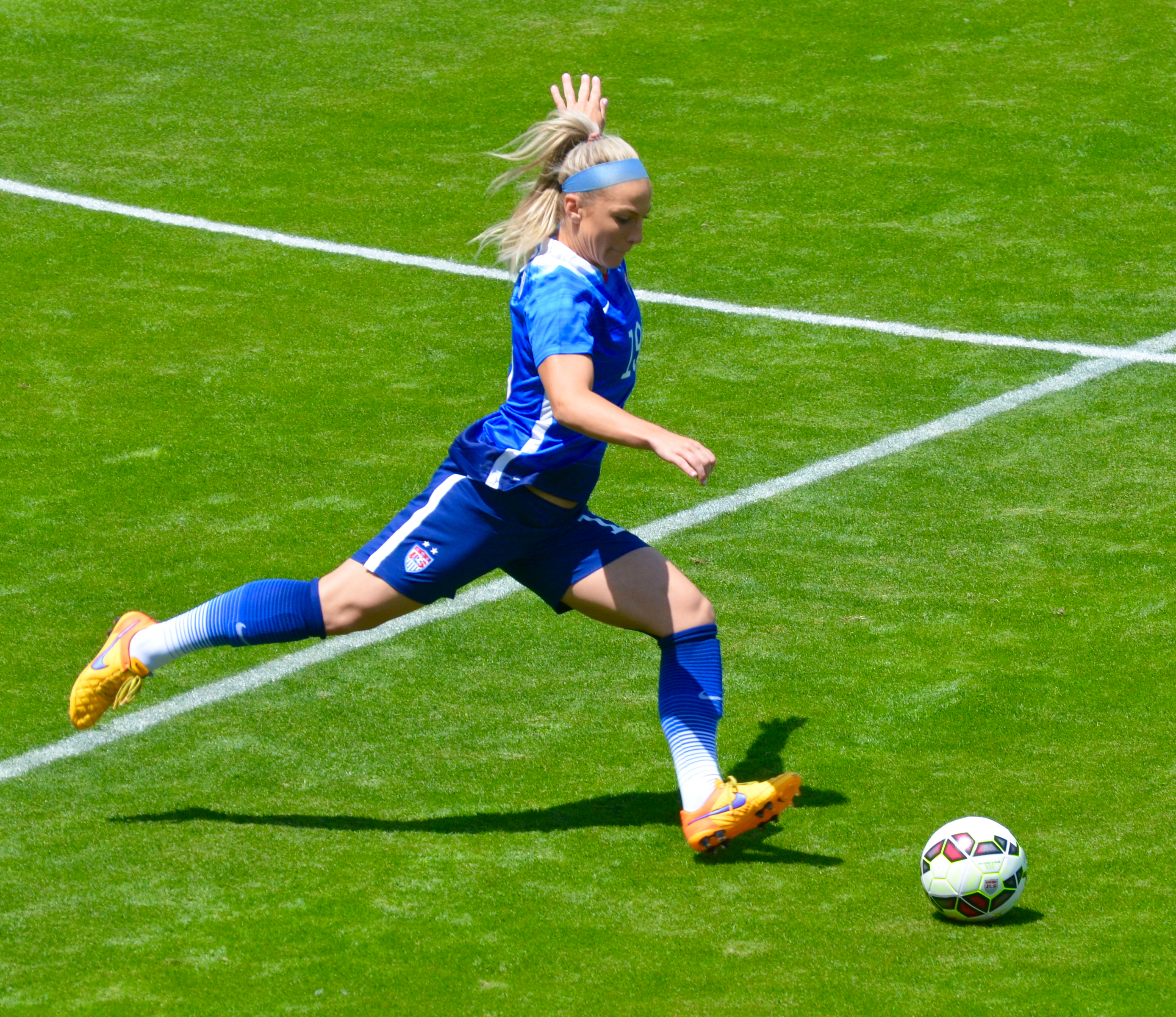 Julie Johnston playing for the US Women's National Team in San Jose, California on 10 May 2015.